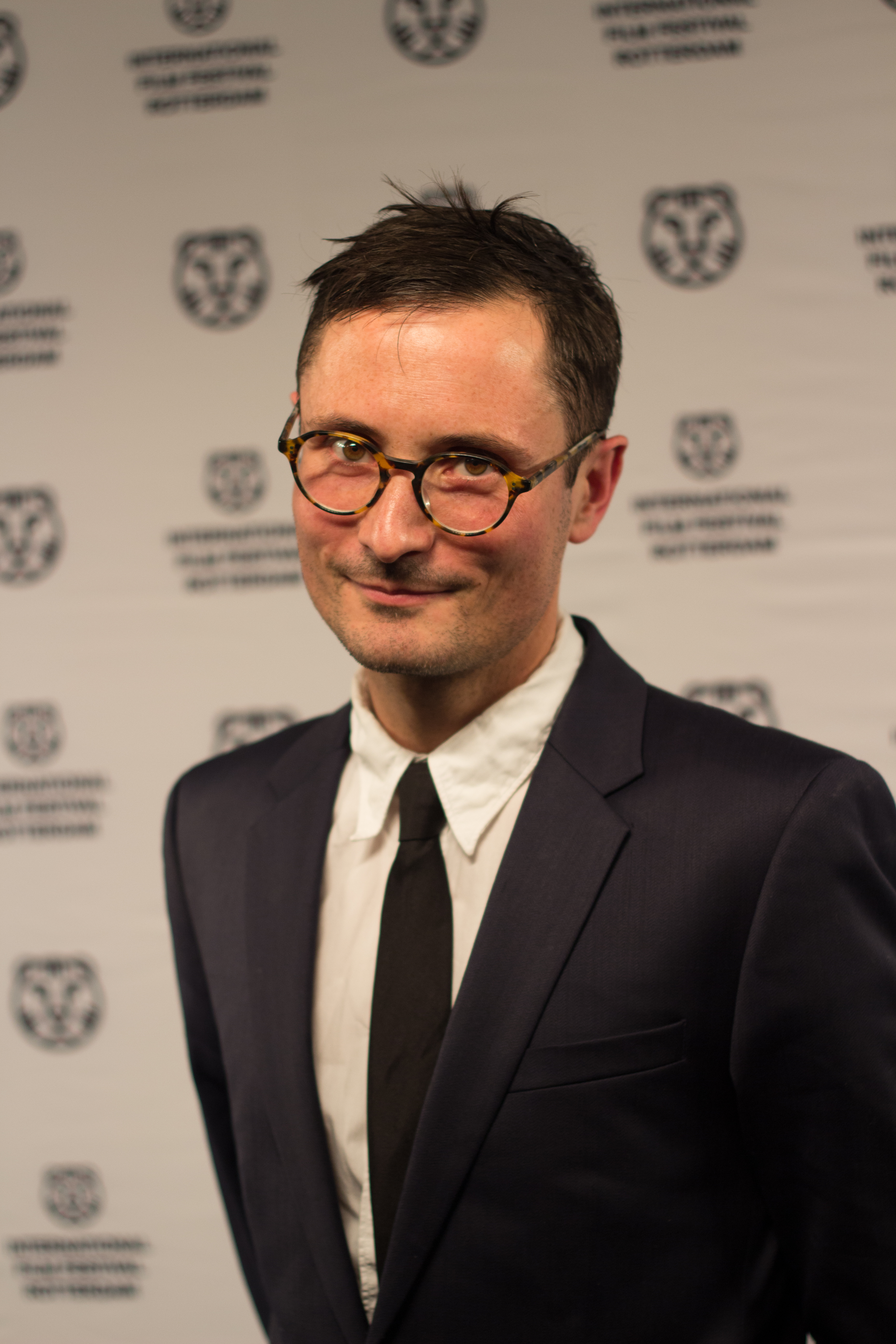 Michael Noer at the International Film Festival Rotterdam